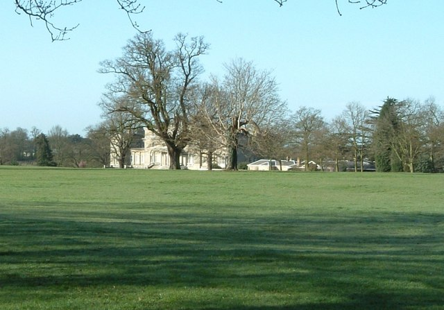 Wrotham Park. Taken looking across the mansion's grounds from just off the footpath (see 320547) in fields to the east. This stately home is now used for private and corporate functions, events, conferences etc. One of the main entrances to the park can be seen in 320523. Wrotham Park's own website is here